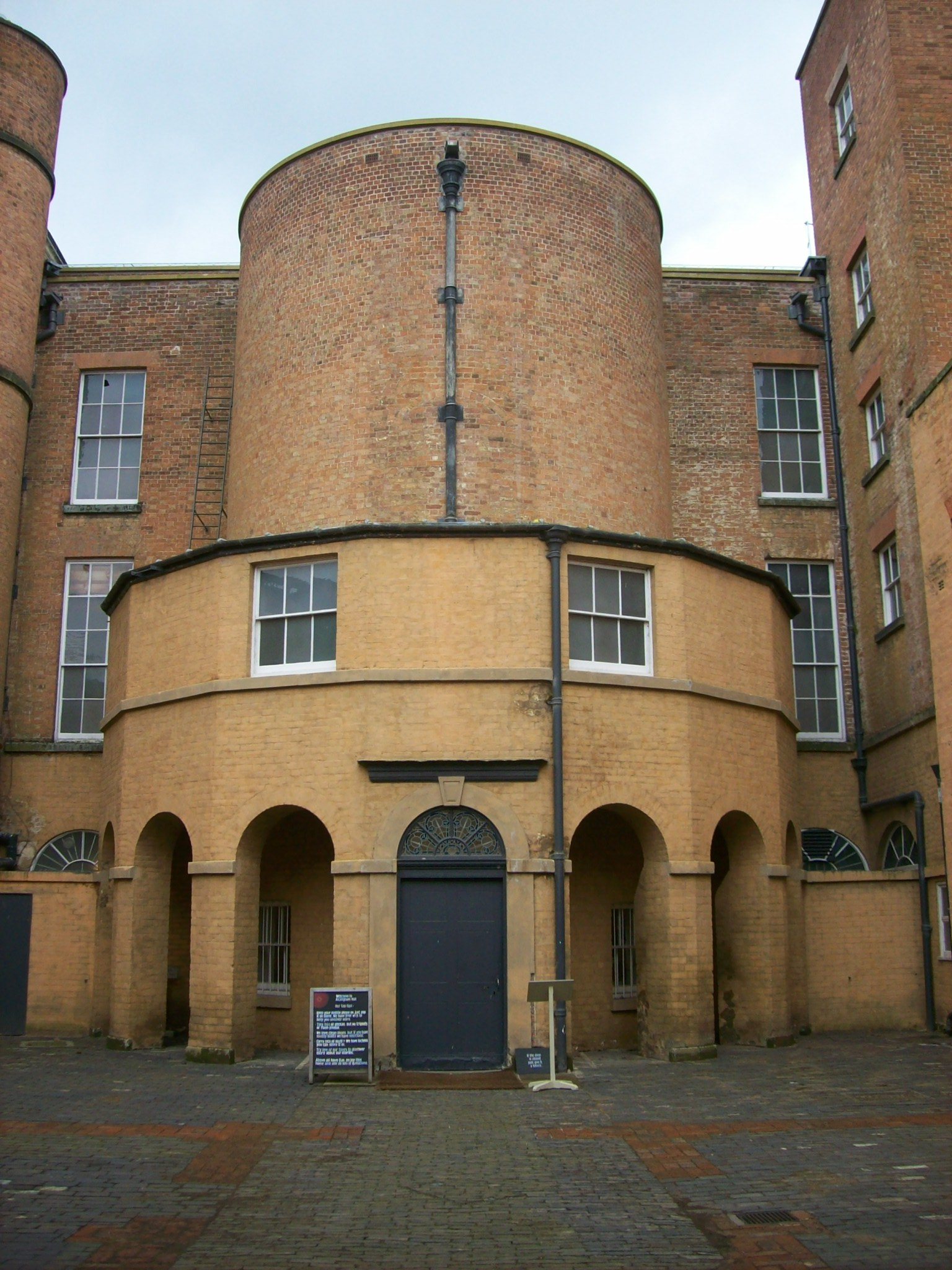 Attingham Park, inner courtyard